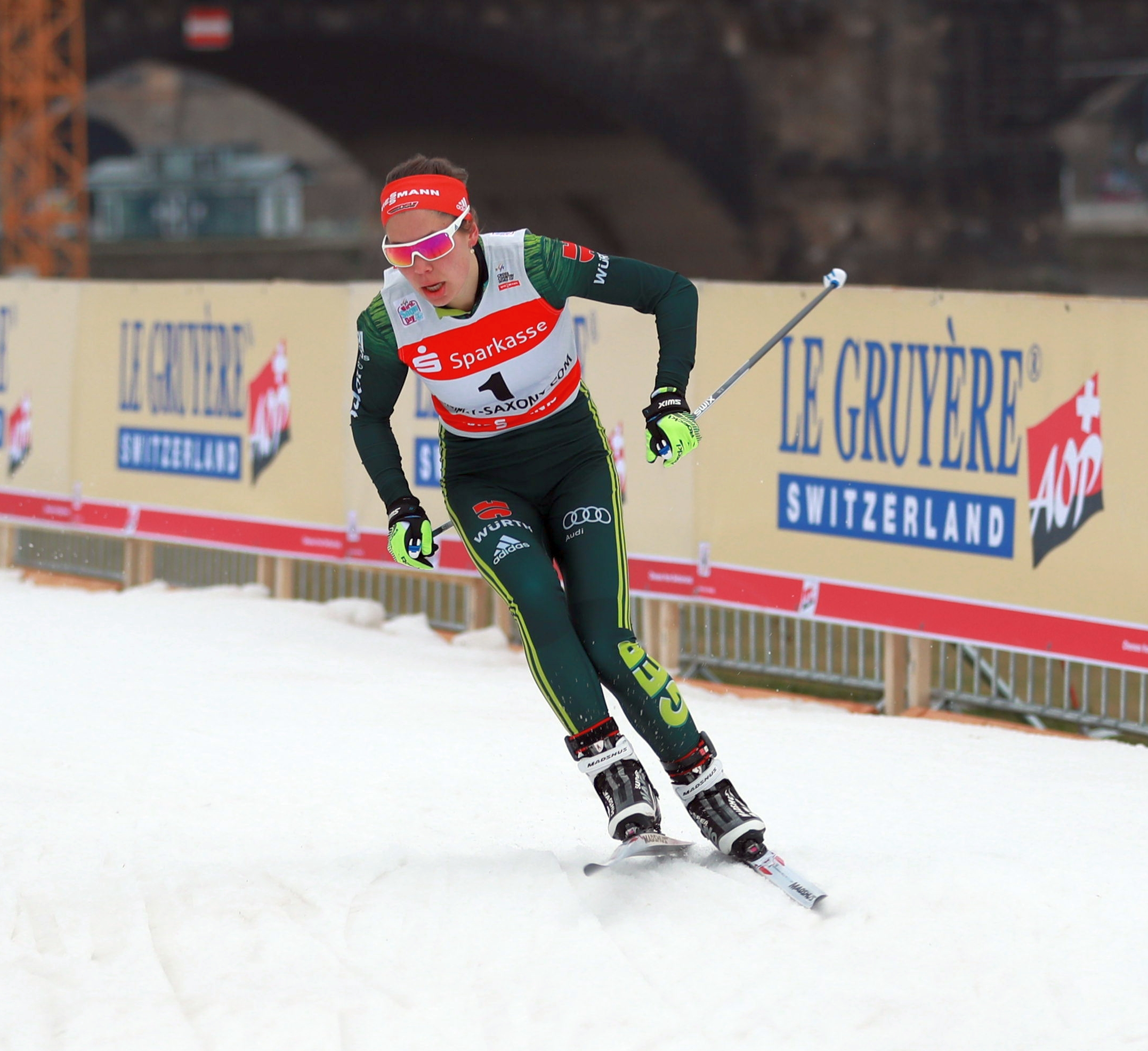 Womens Prolog at the FIS Cross-Country World Cup Dresden 2018: Hanna Kolb